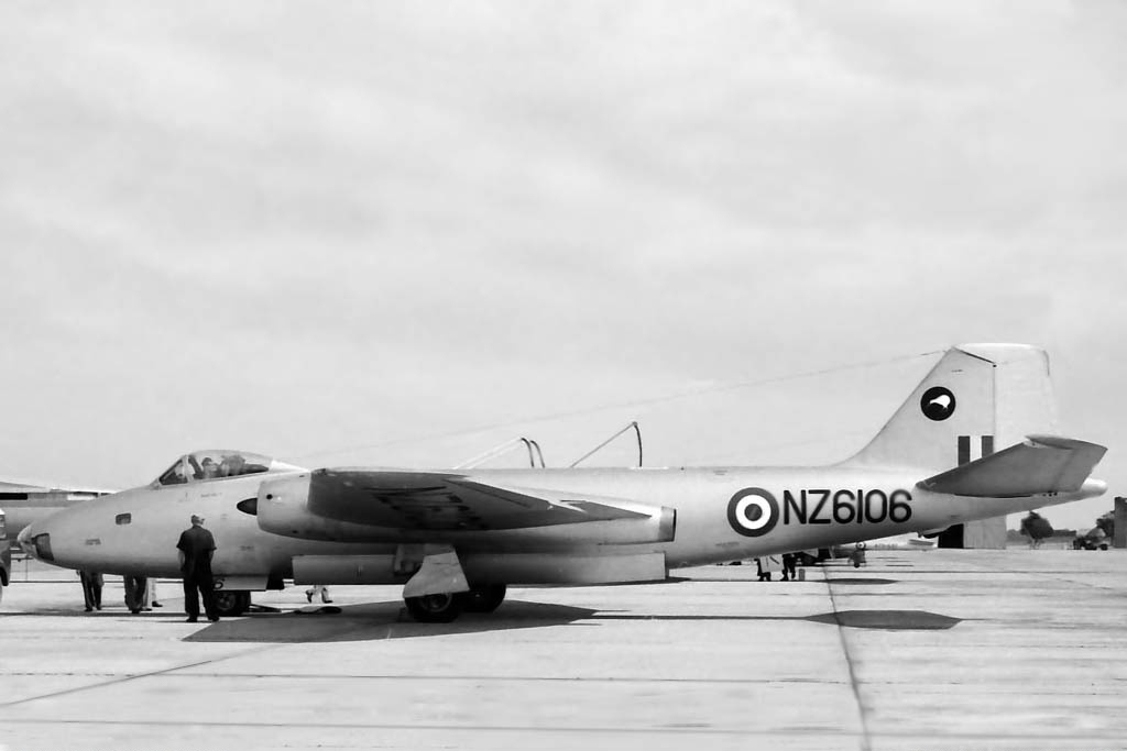 RNZAF English Electric Canberra B(I)12 at East Sale